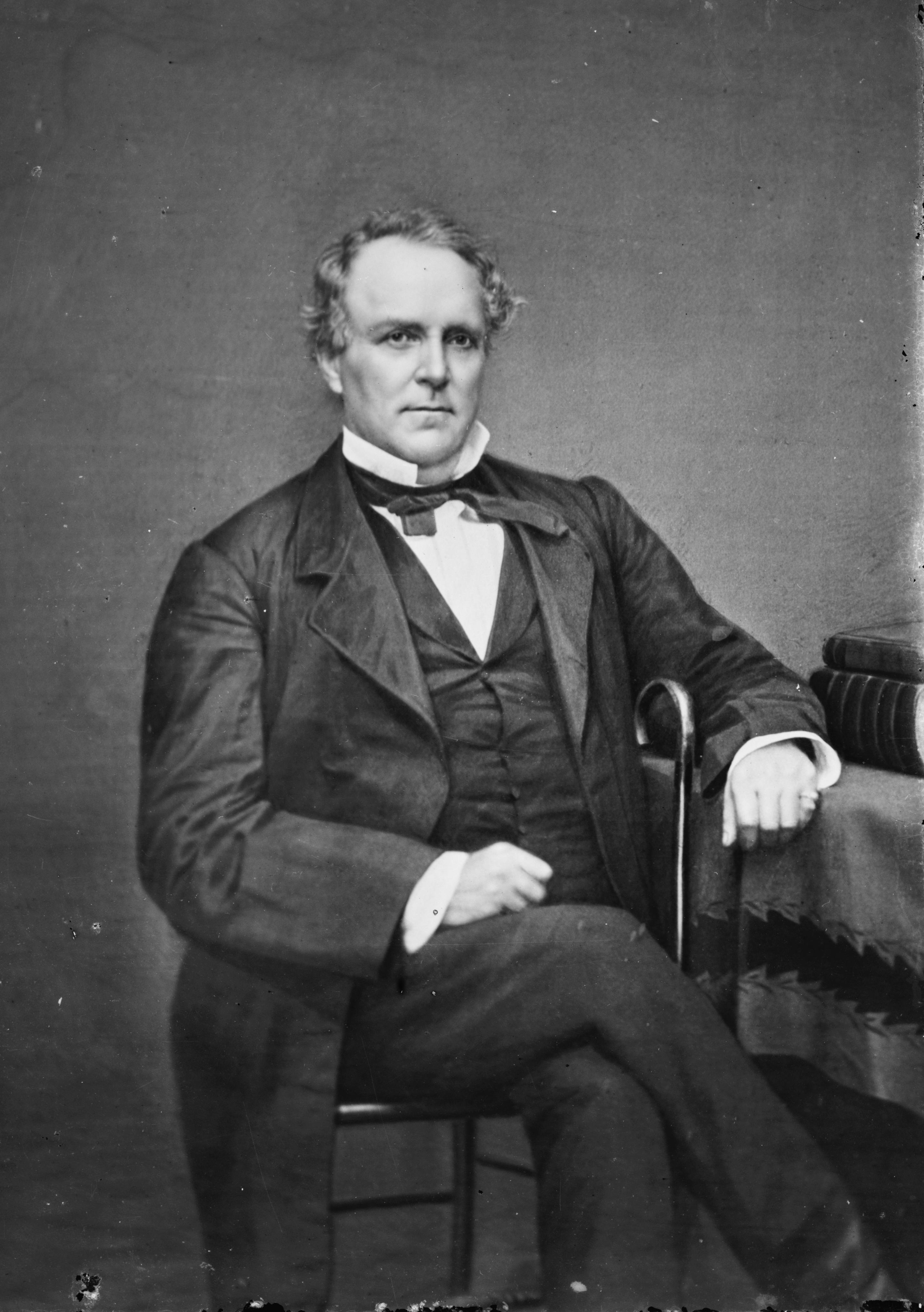 Benjamin Parke. Library of Congress description: "Benjamin Parke"